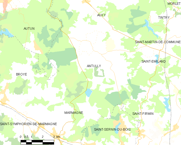 Map of French municipality